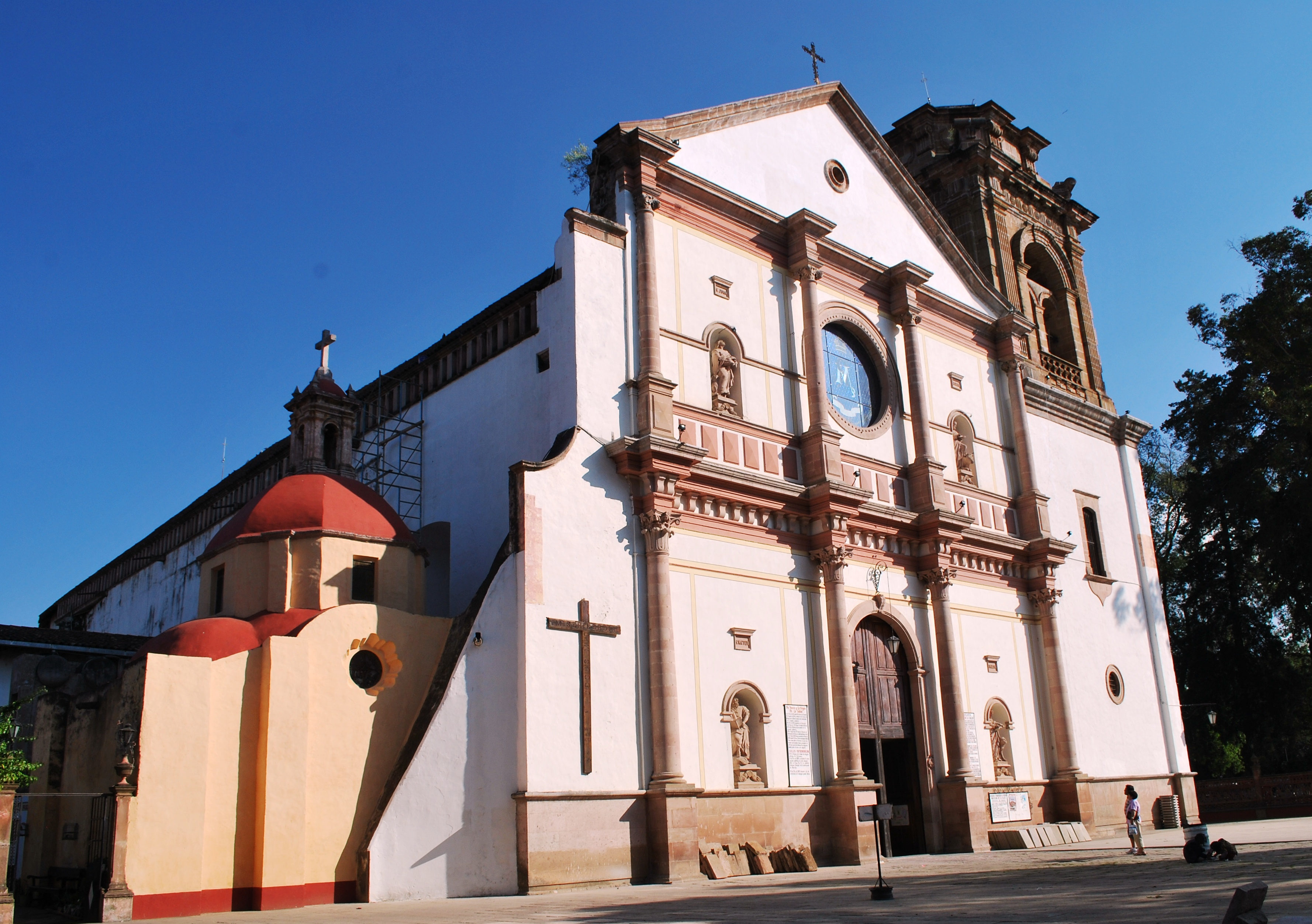 Facade of the Basilica of Nuestra Señora de la Salud in Patzcuaro, Michoacan